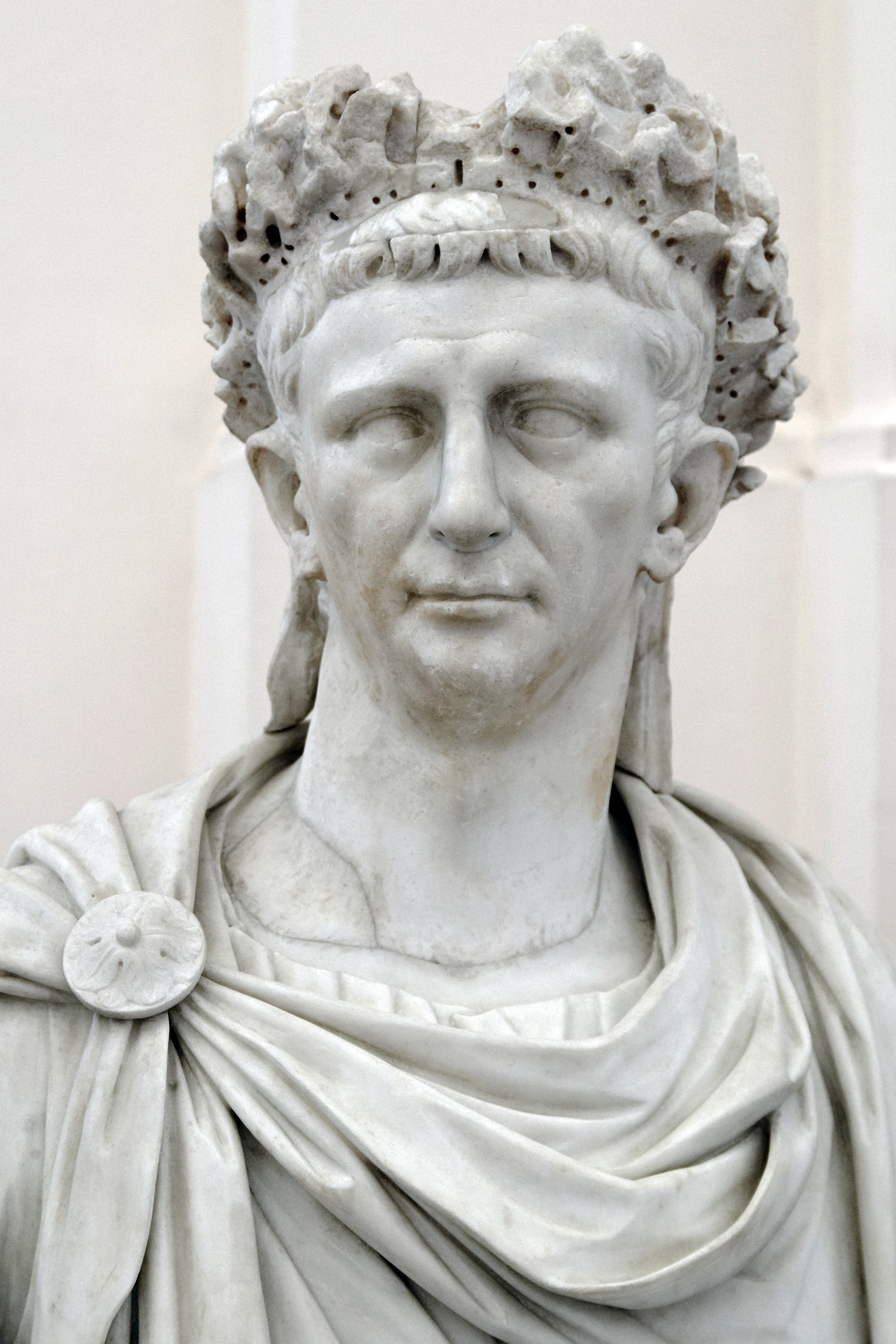 Bust of Emperor Claudius.